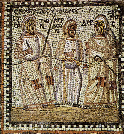 Illustration of a scene from act 4 of Menander's comedy "Encheiridion" (Dagger), mosaic panel from the dining room of the House of Menander in Mytilene, 3rd century AD (excavators) or later 4th century AD (S. Nervegna).